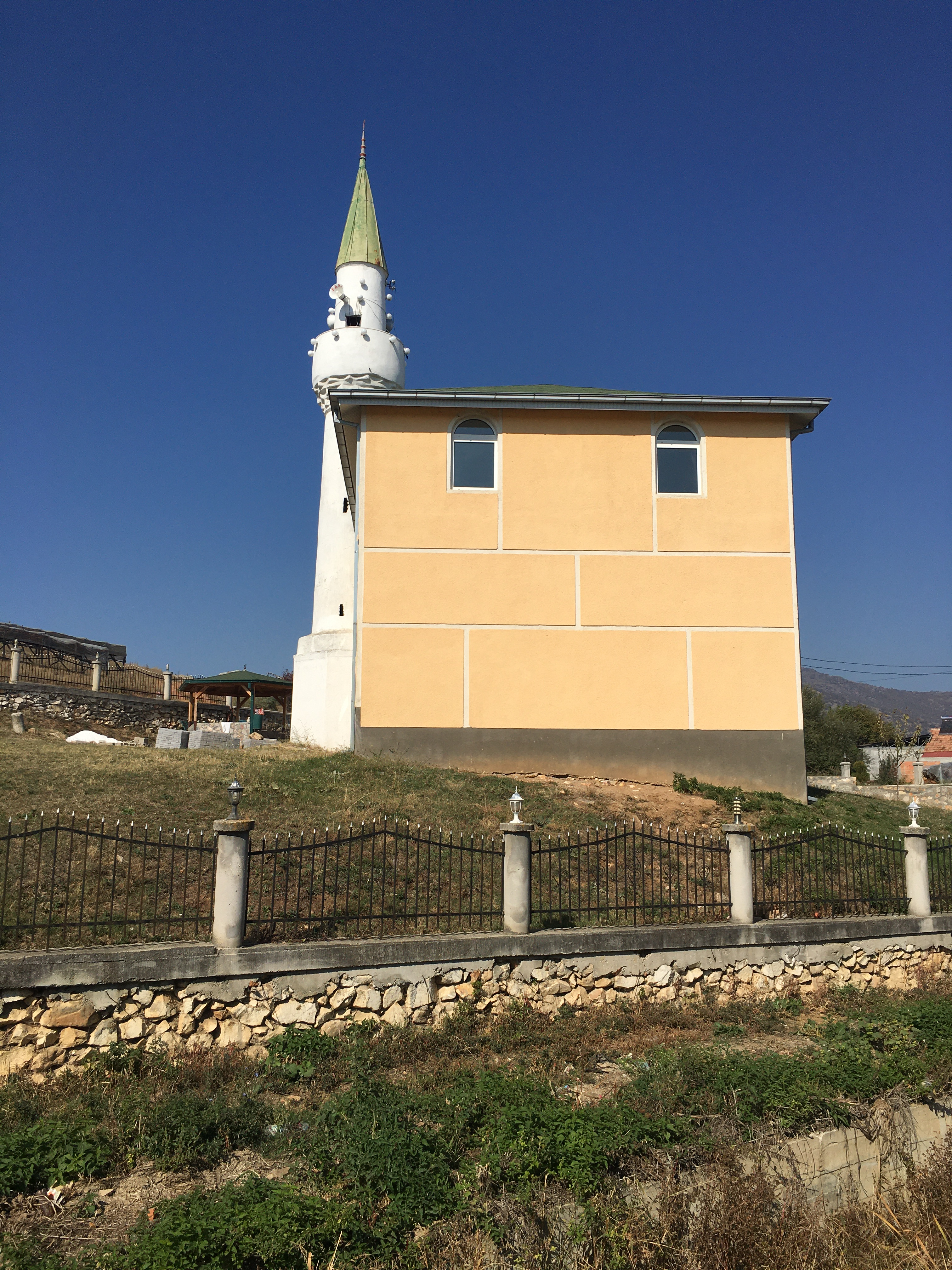 The mosque in the village of Desovo